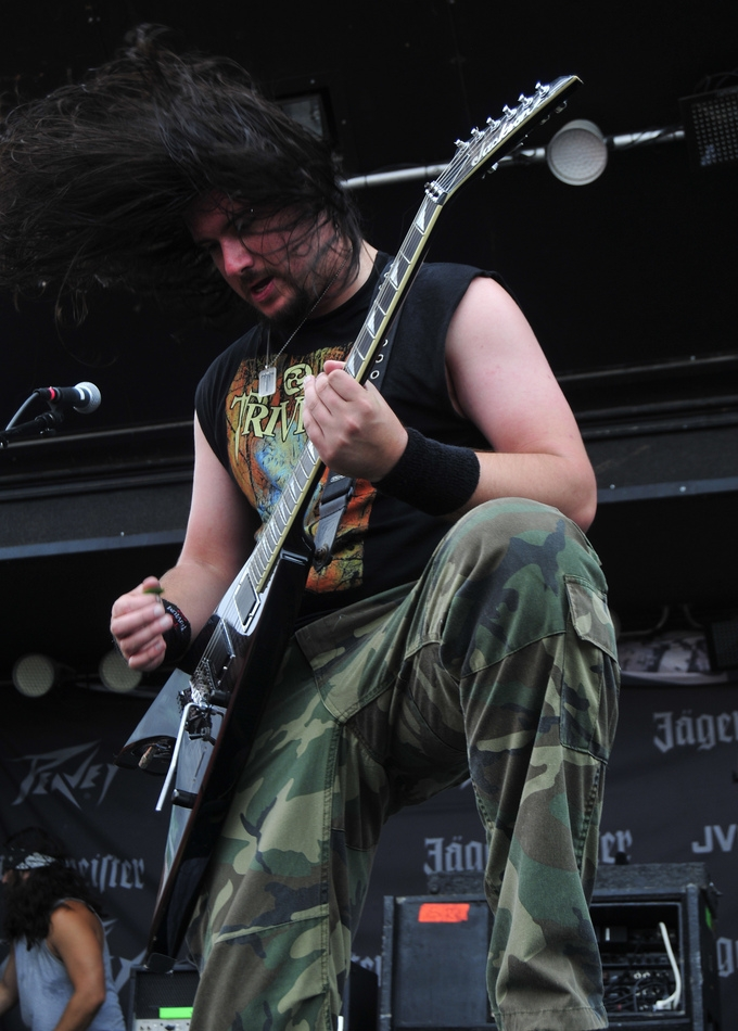 Corey Beaulieu live at Mayhem Festival 2009